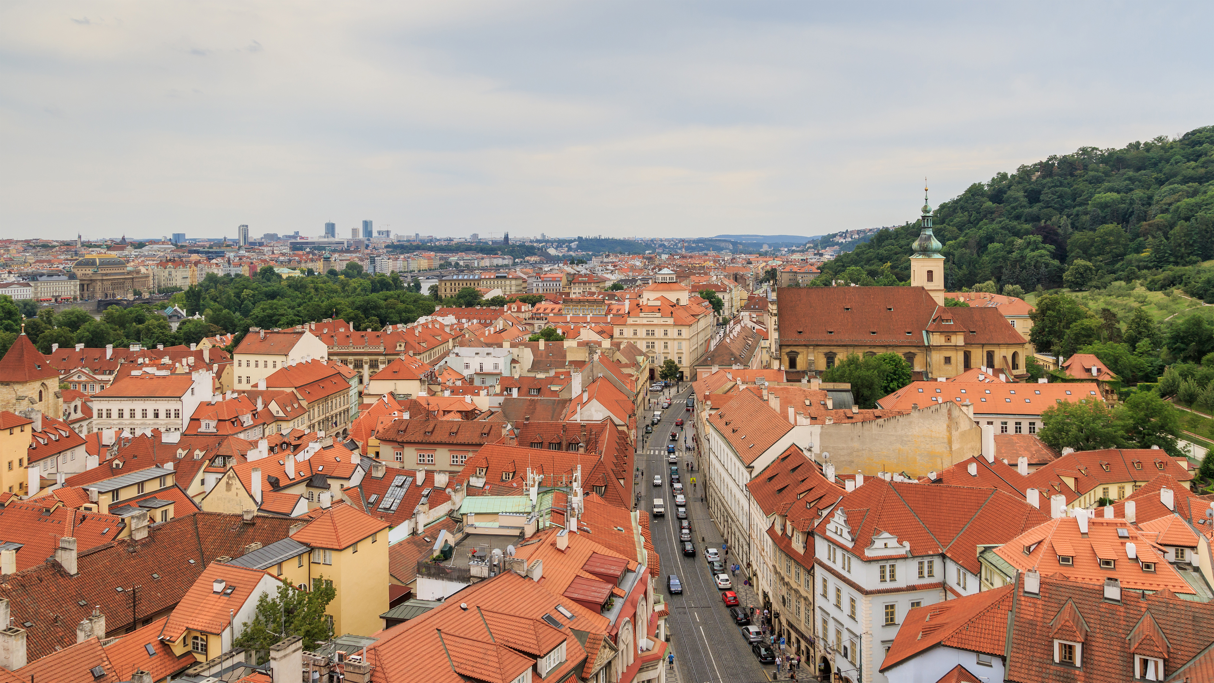 View from St.Nicholas Church in Lesser Town in Prague (Czech Republic)